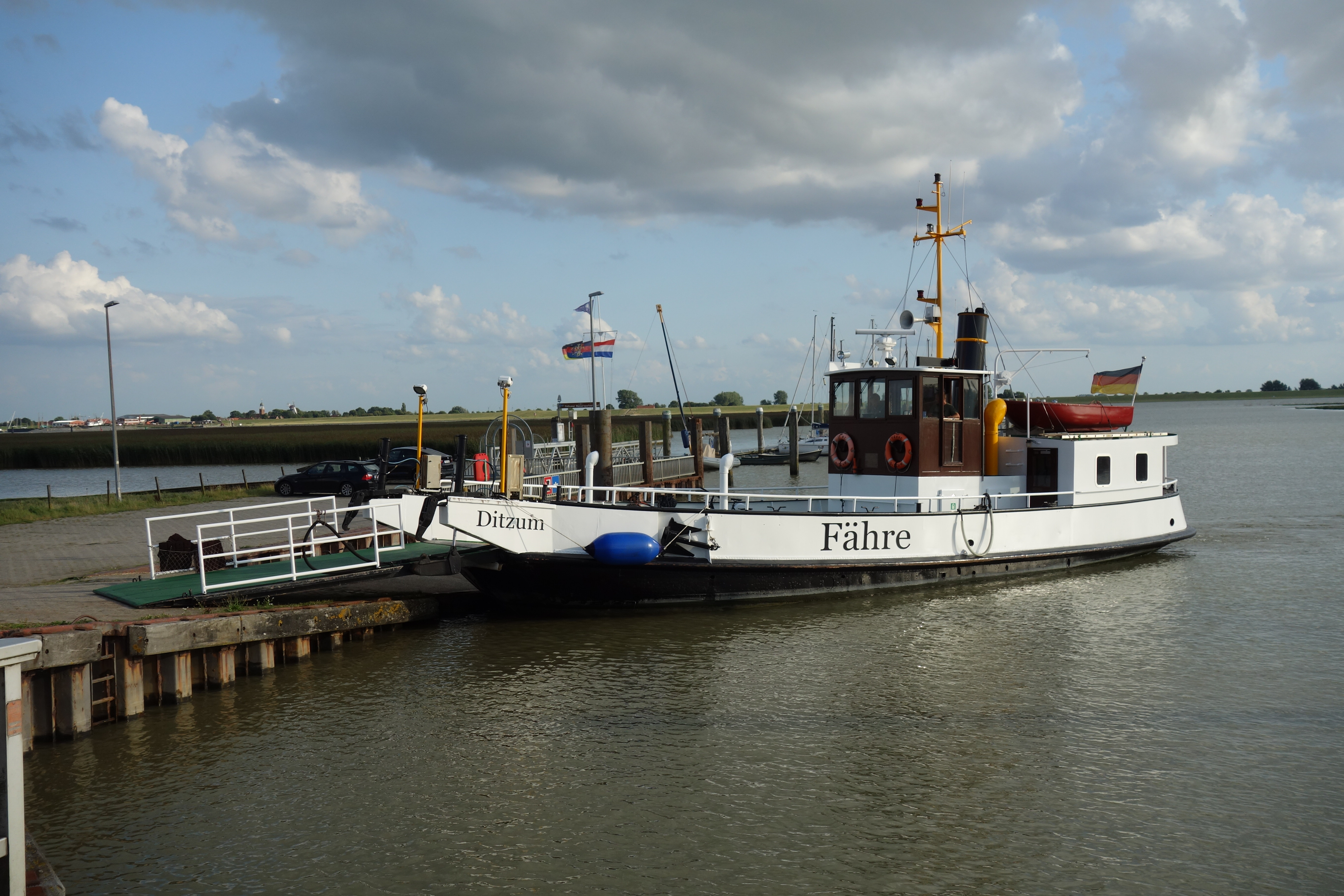 The Ditzum is a ferry across the Lower Ems